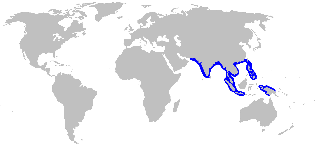 Distribution map for Atelomycterus marmoratus